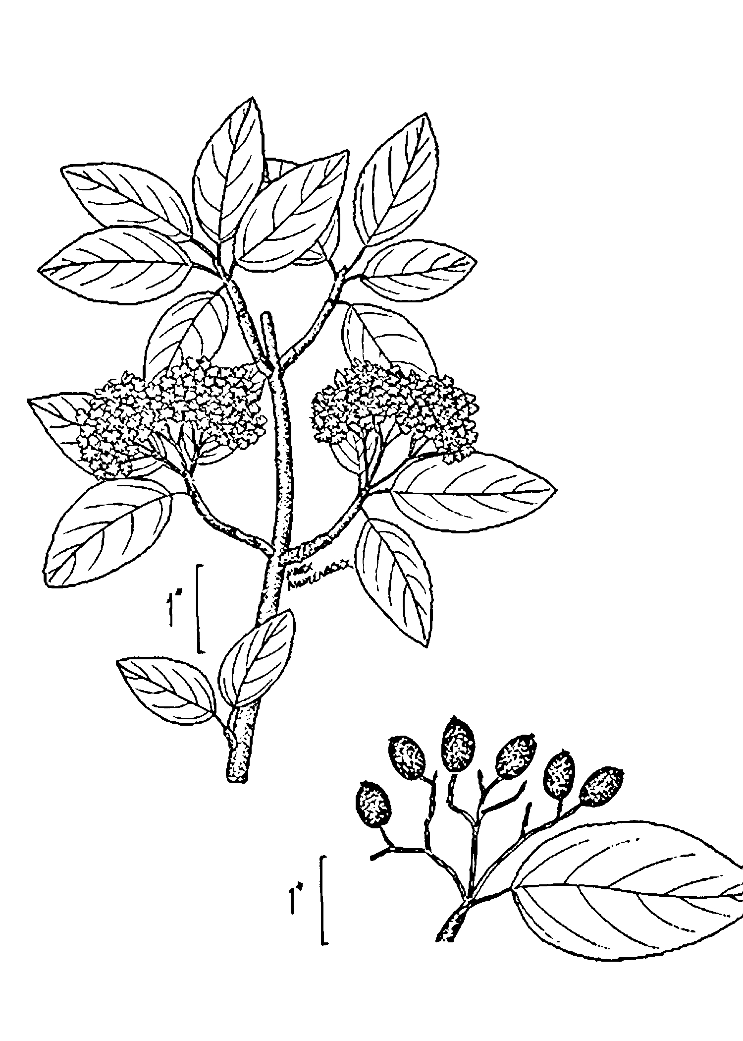 Illustration of Viburnum prunifolium